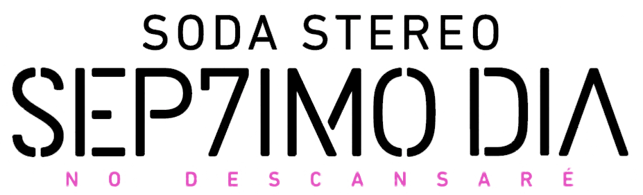 Logo for Sep7imo Dia